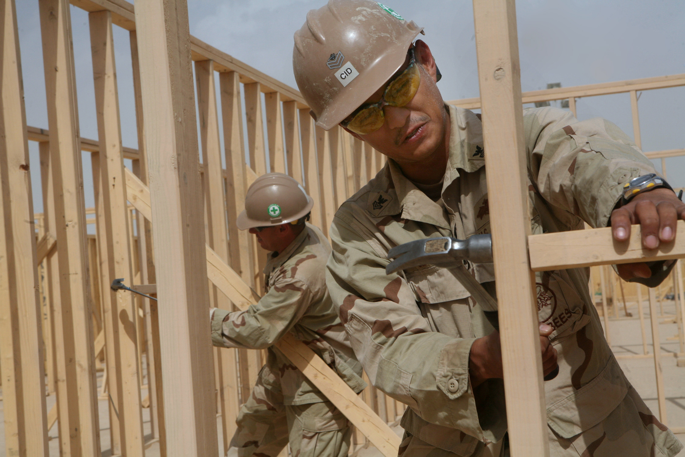 Camp Leatherneck, Afghanistan (May 13, 2009) Navy Petty Officers 1st Class John Cid, from Quezon City, Philippines, and Thomas Damron, from Port Hueneme, California, frame walls of the Regimental Combat Team 3 Combat Operations Center at Camp Leatherneck. After the brigade command center is complete, the Seabees will move on to build the 12,000 square-foot RCT-3 and Camp Leatherneck Garrison combat centers. (U.S. Marine Corps photo by Corporal Aaron Rooks/Released)